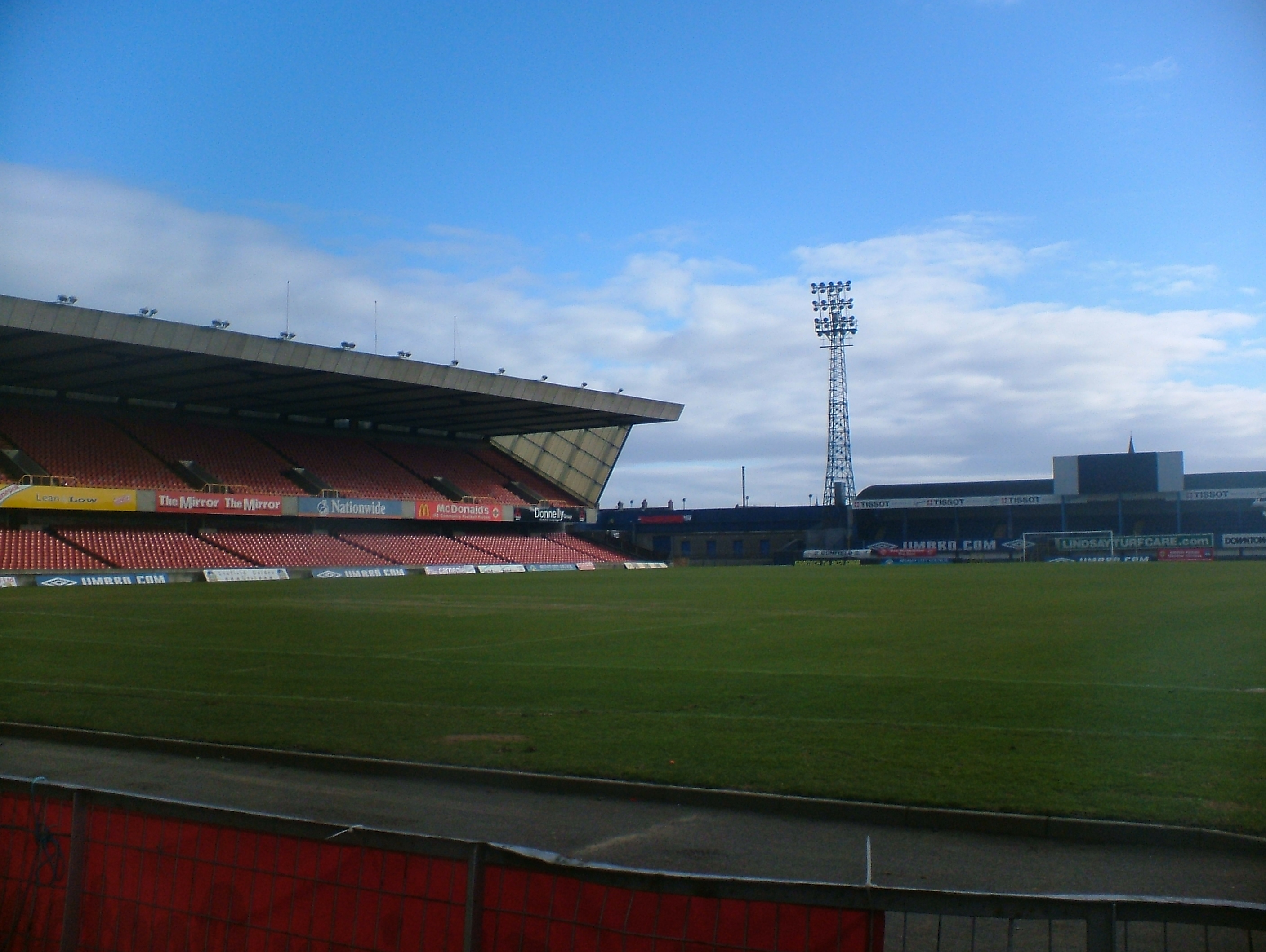 The view from the Alex Russell stand of Windsor park, Belfast, on a Sunday morning during the carboot sale (hence empty) 26/2/2006. I took the photo, and claim no rights over it